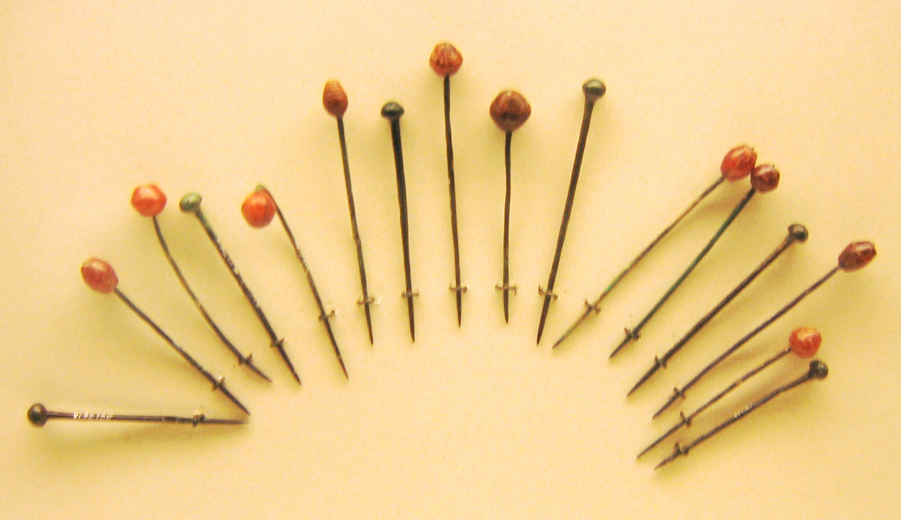 Hairpins found in a grave of the Hallstatt culture.